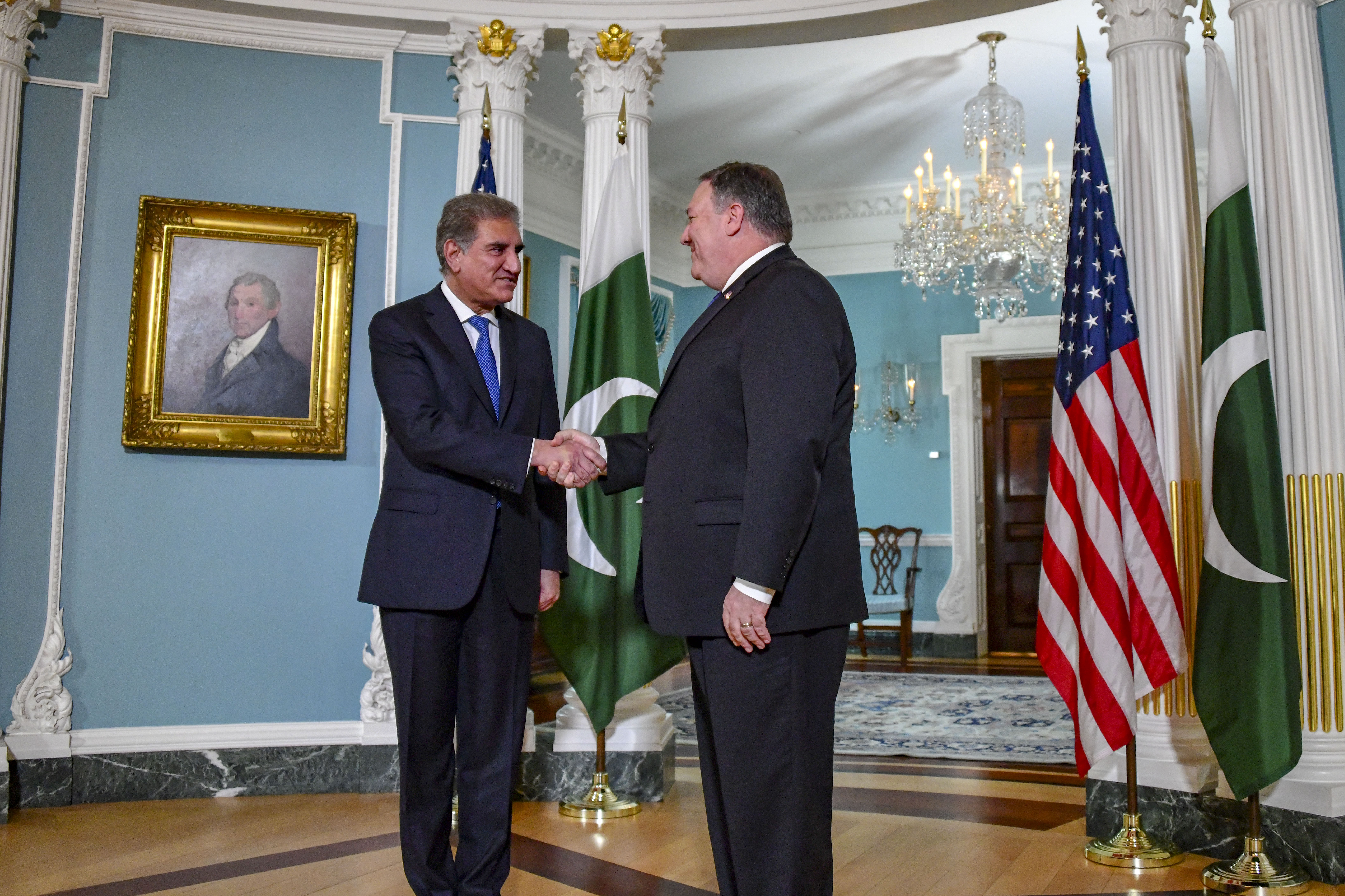 Secretary Michael R. Pompeo meets with Pakistani Foreign Minister Makhdoom Shah Mahmood Qureshi, at the Department of State.